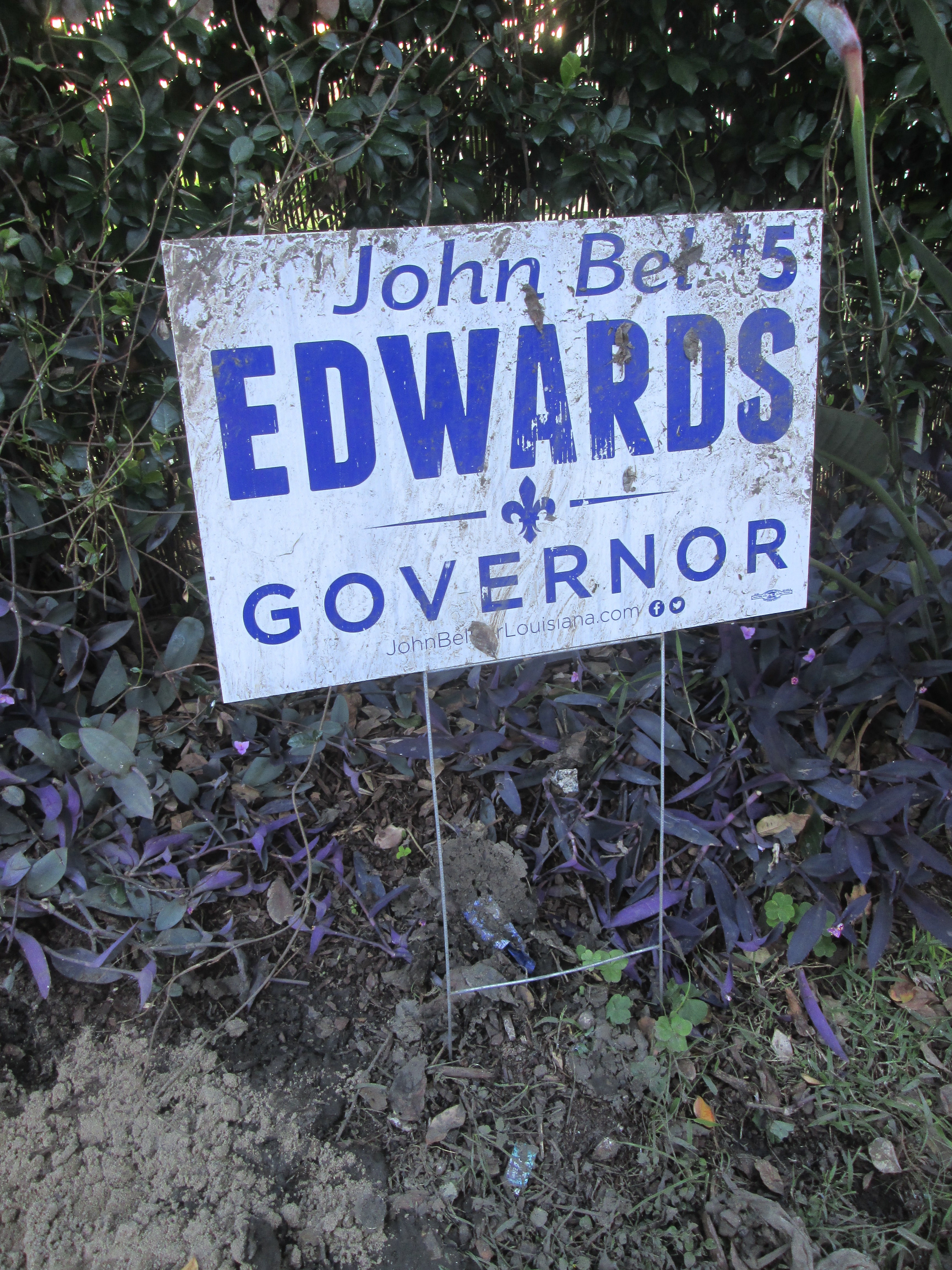 There's sure been a lot of mud throwing in the Louisiana Governor race. Don't Vitter.